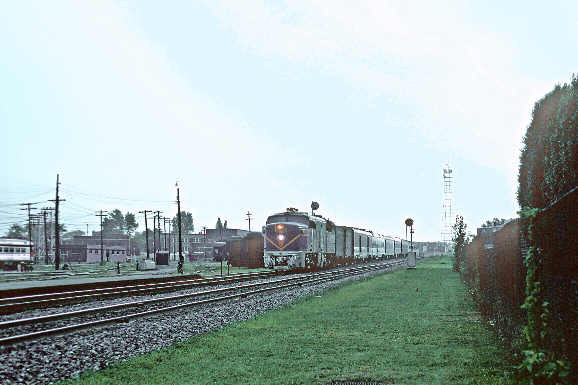 The Napierville Junction Railway's Laurentian on CPR tracks near Westmount, Que. in September 1968